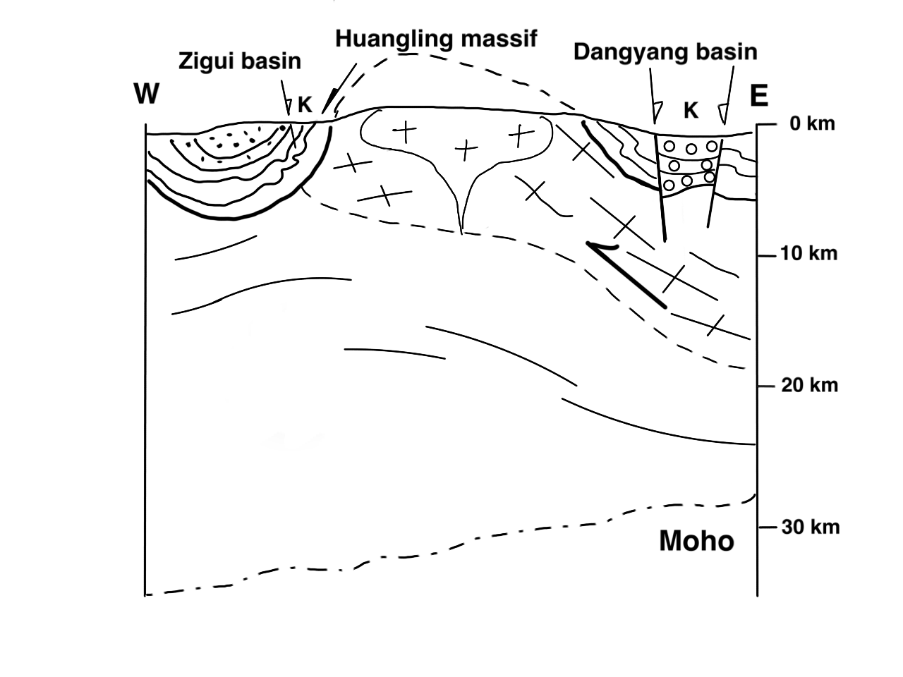 This is a modified model suggested in Origin and tectonic significance of the Huangling massif within the Yangtze craton, South China by Ji in 2013.